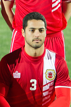 Gibraltarian football player, Yogan Santos